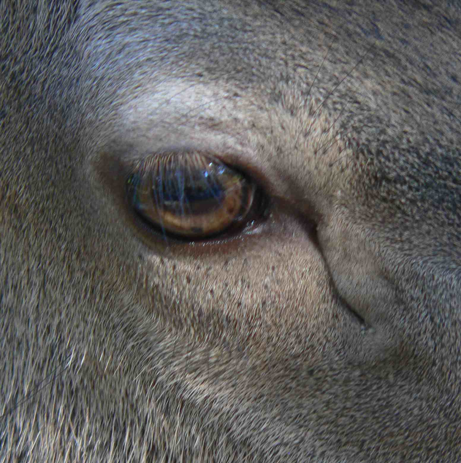 Cervus elaphus eye of female